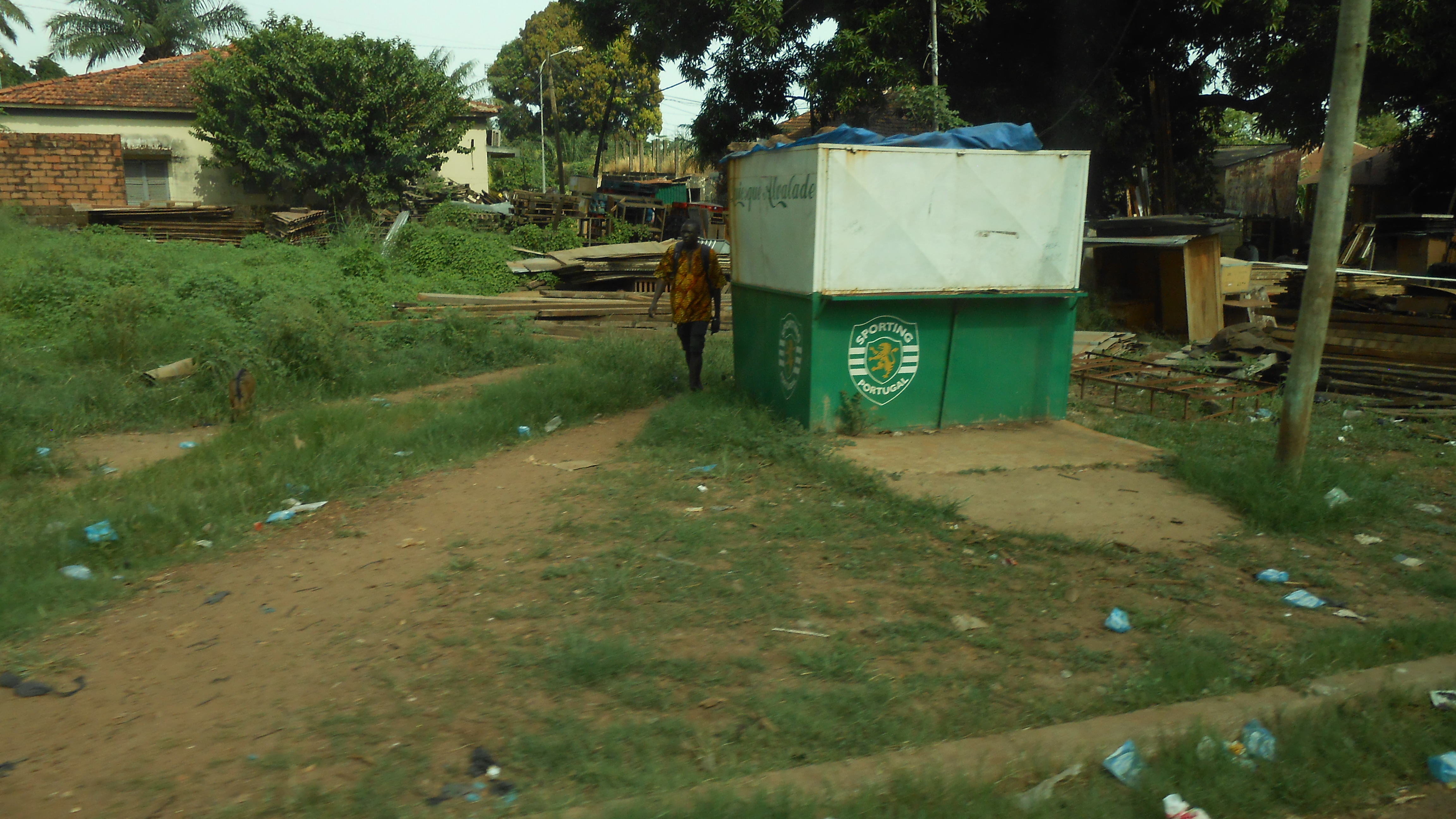 A closed booth or newsstand in the centre of Bissau showing the emblems of portuguese football club Sporting.